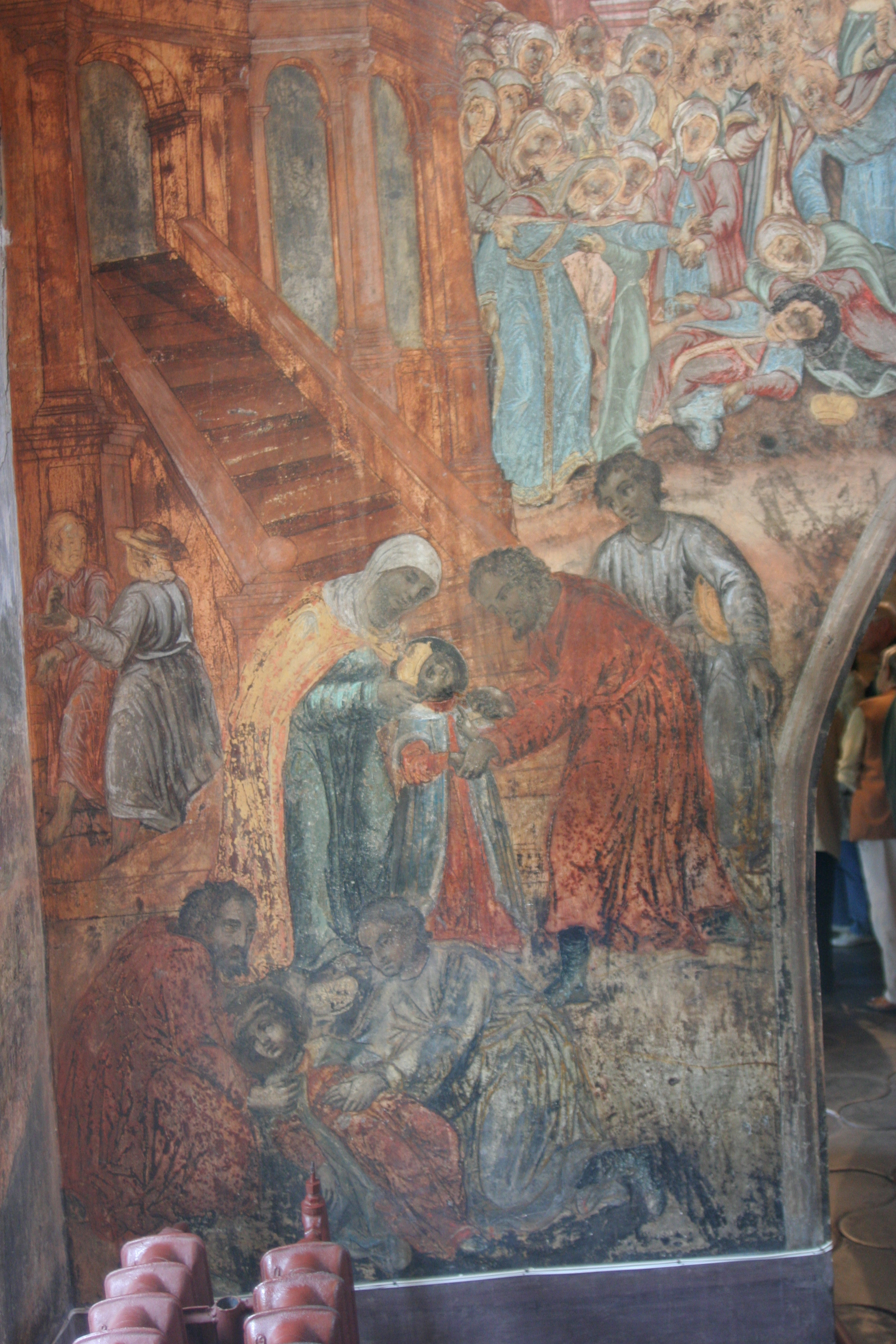 Dimitrij church Uglich Frescoe showing the murder of tsarevitch Dimitrij